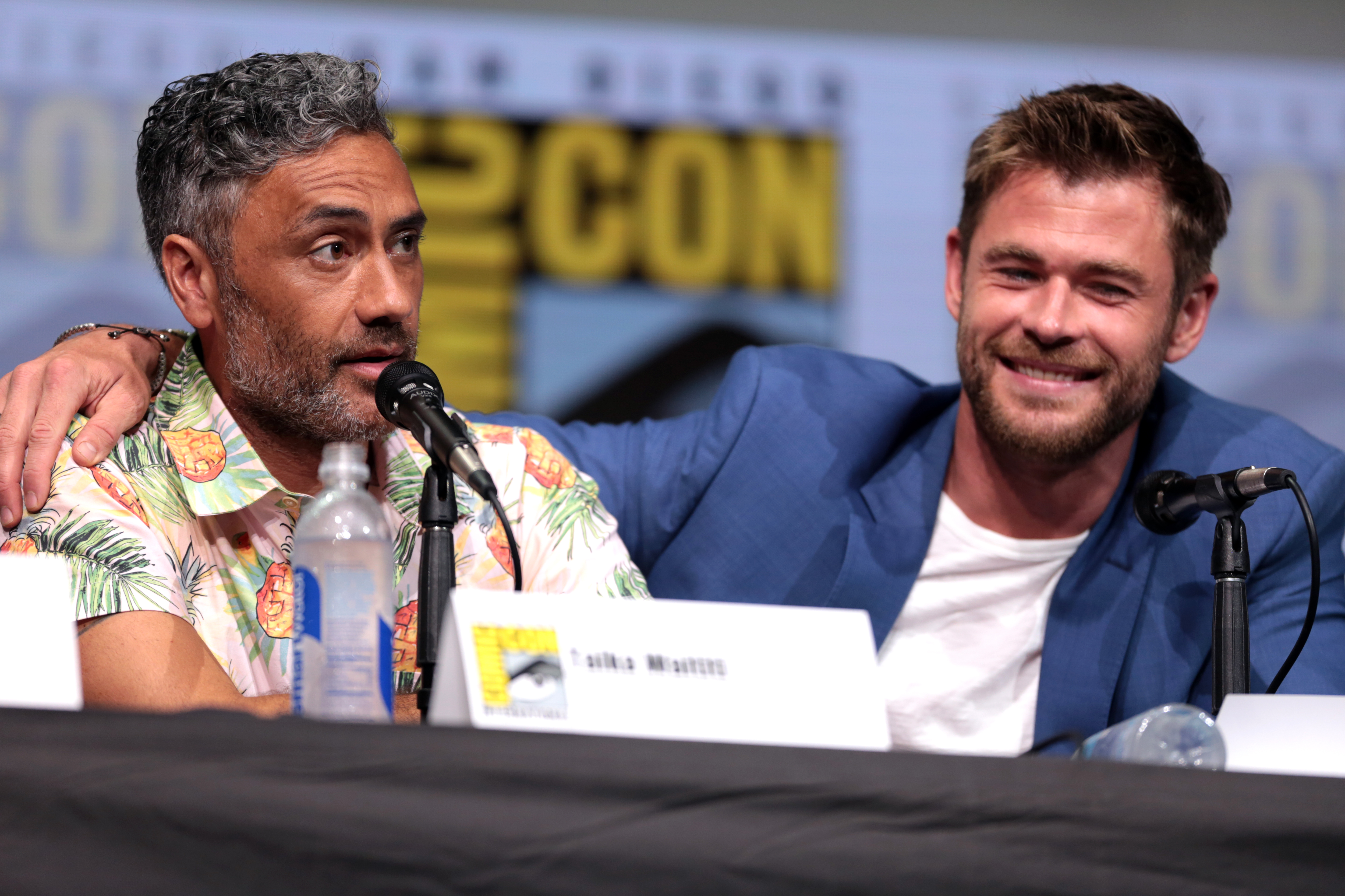 Taika Waititi and Chris Hemsworth speaking at the 2017 San Diego Comic Con International, for "Thor: Ragnarok", at the San Diego Convention Center in San Diego, California.